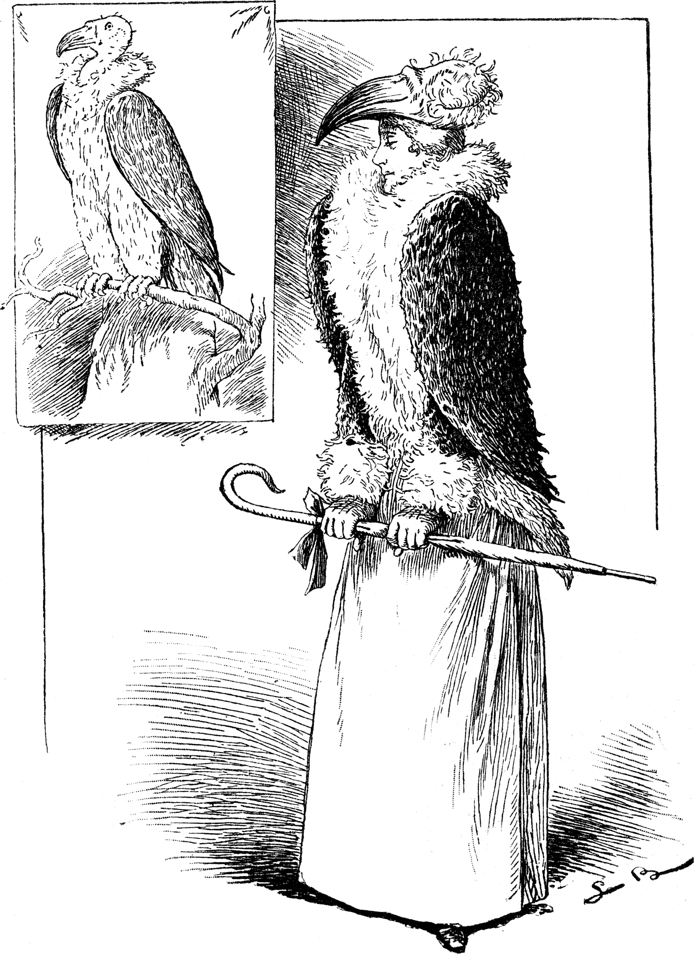 Modern costume and it's model.